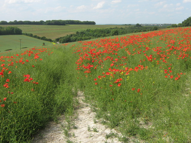 A poppy path to Chatham This footpath heads downhill from Capstone Country Park heading through a field of Oil Seed Rape (and accompanying poppy (papaver rhoeas)) to Shawstead Road. Hale and Luton is seen in the background on the right.